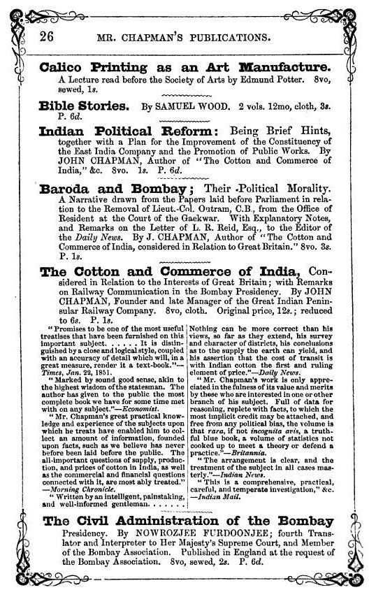 Page of book catalogue of the publisher John Chapman (1821–1894), showing books by John Chapman (1801–1854), English political and economic writer.